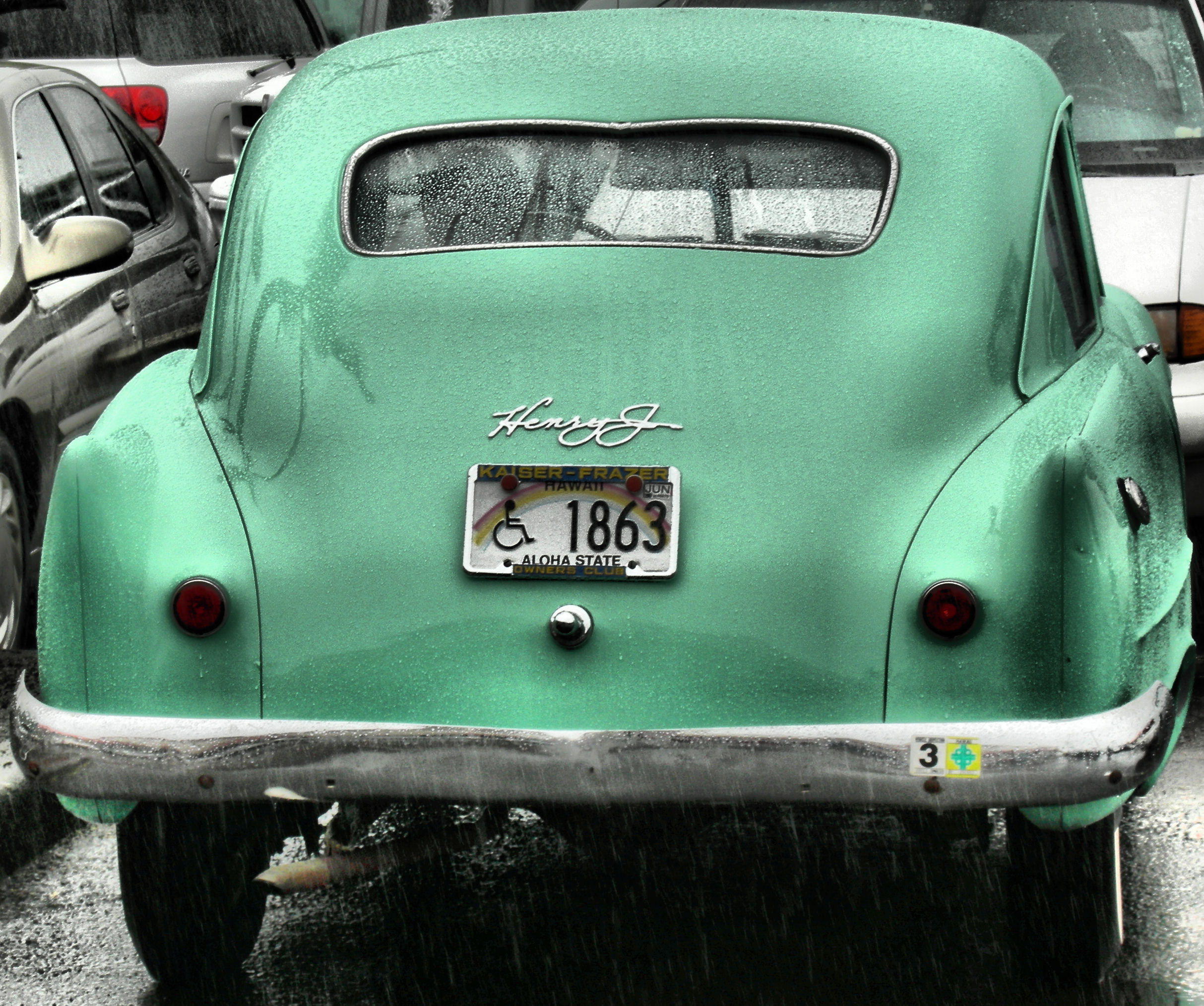 Henry J's trunk.